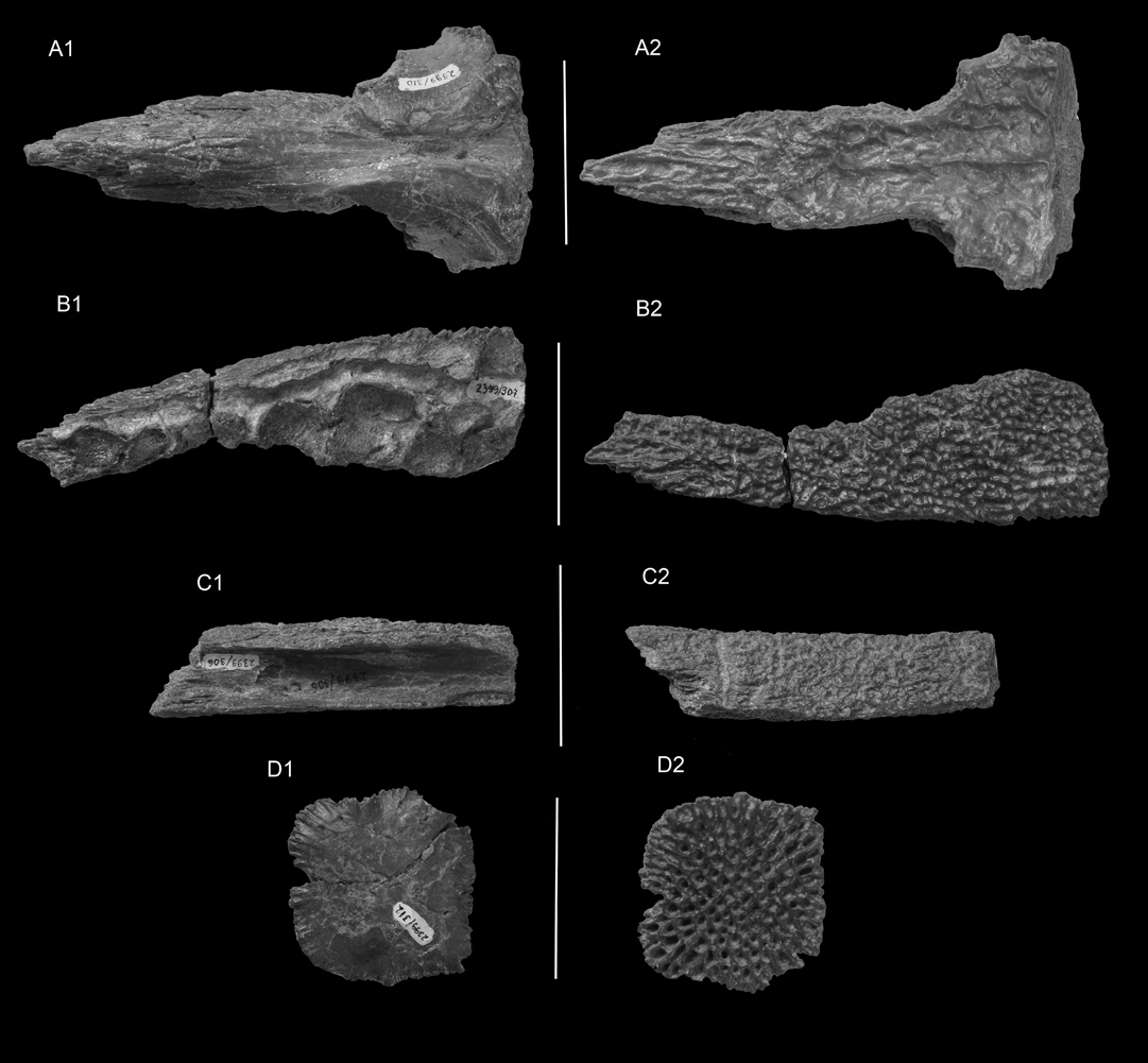 Kansajsuchus extensus specimens. A. Portion of frontal bone and posterior end of nasal, PIN 2399‒310 in ventral (A1) and dorsal (A2) aspect. B. Broken portion of a left maxilla, PIN 2399‒307 in ventral (B1) and dorsal (B2) aspect. C. Anterior section of right nasal bone, PIN 2399‒306 in ventral (C1) and dorsal (C2) aspect. D. Example of dorsal dermal osteoderm, PIN 2399‒312 in ventral (D1) and dorsal (D2) aspect. Scale bars are 5 cm.